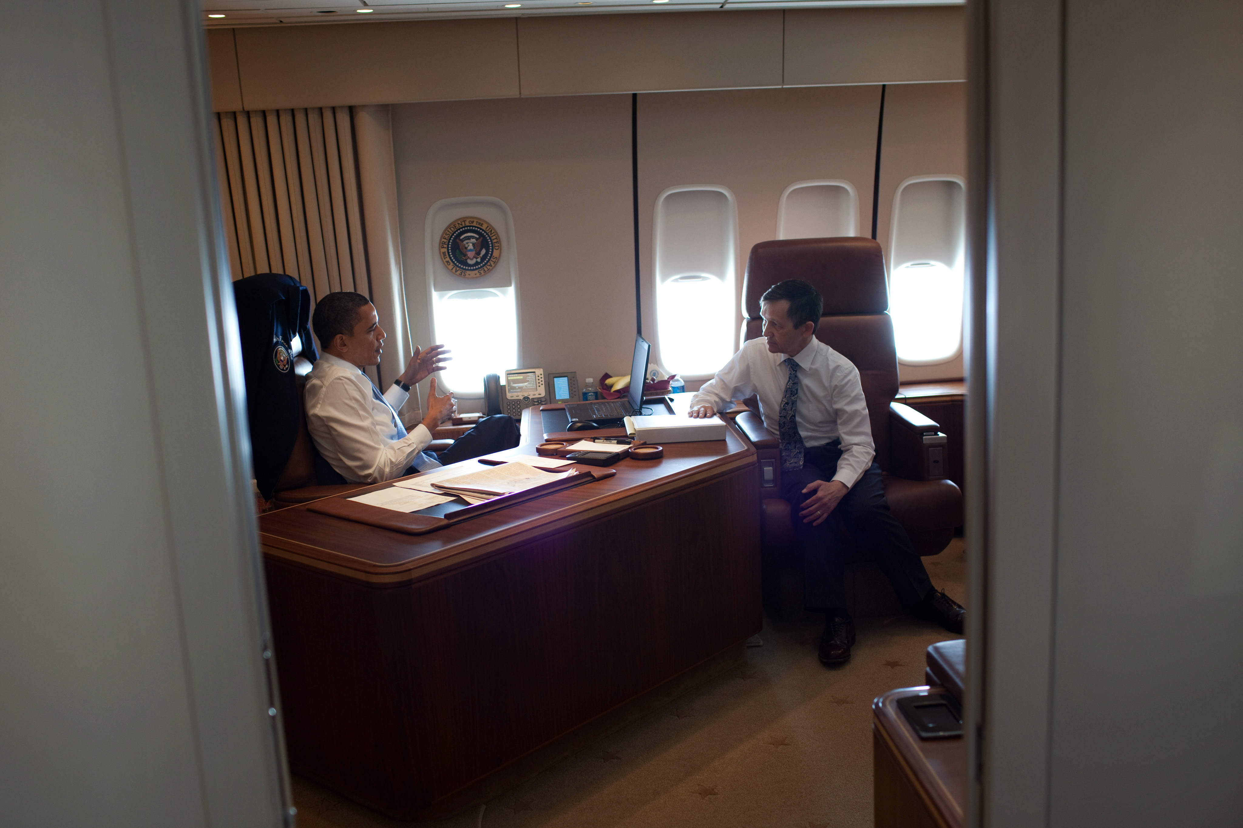 President Barack Obama meets with Rep. Dennis Kucinich, D-Ohio, aboard Air Force One en route to Cleveland, Ohio, March 15, 2010. (Official White House Photo by Pete Souza)